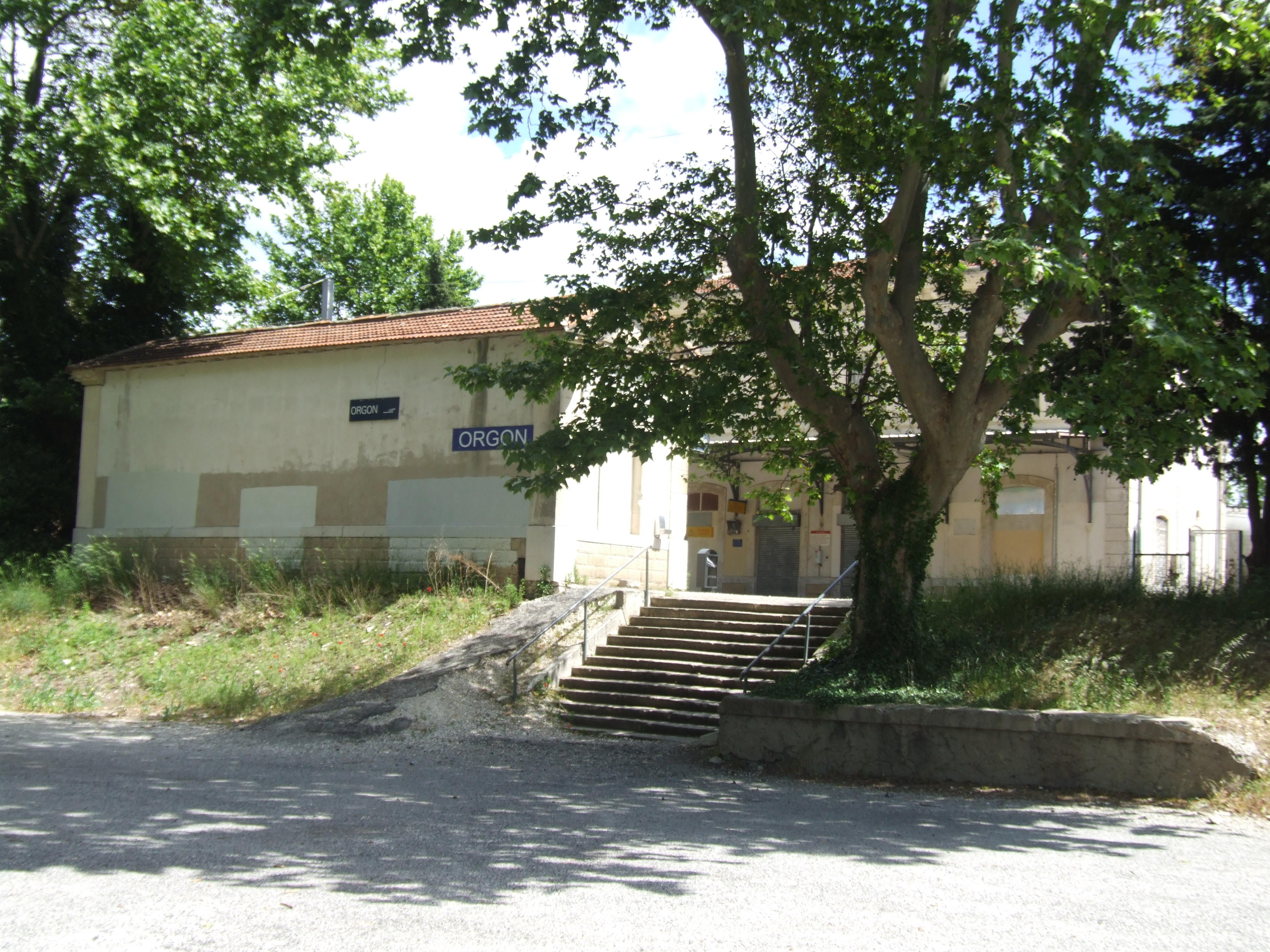 Orgon railway station in Bouches-du-Rhône, France.